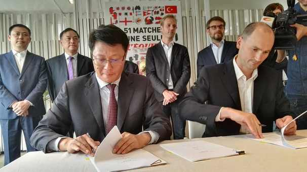 Titan Sports signed a contract with Amaury Group on Aug. 29th, 2016.